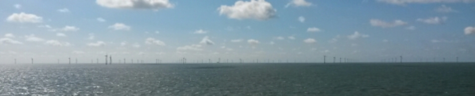 The Greater Gabbard offshore wind farm, as seen from the Stenaline Harwich to Hook of Holland car ferry.